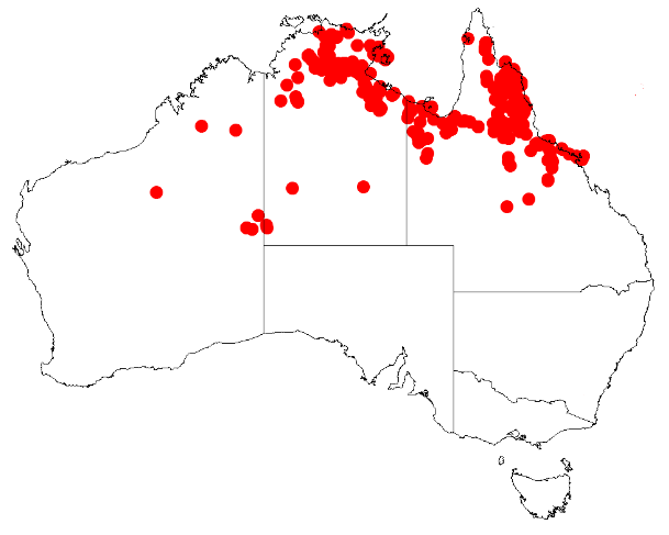 Acacia umbellata Occurrence data from Australasia Virtual Herbarium downloaded from on 8 December 2018